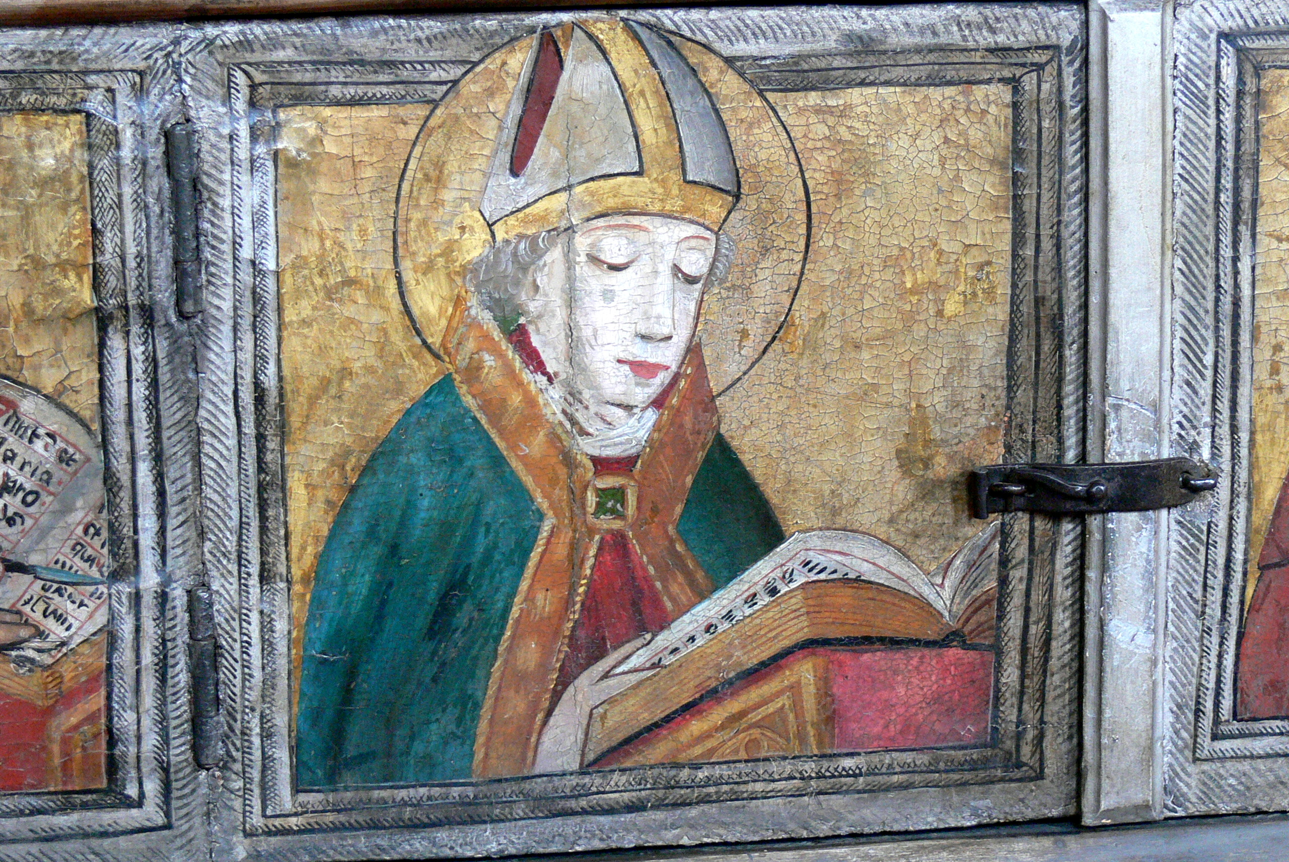 Langenzenn ( Bavaria ). City church - Altar of Mary ( Predella ): Saint Ambrose ( 1440/50 ).